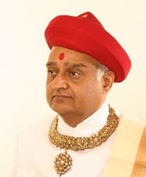 His Holiness Acharya 1008 Shree Tejendraprasadji Maharaj (Retired)-6th descendant of Shree Swaminarayan Bhagwan.